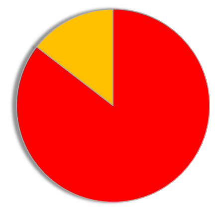 Expressed as a pie chart in the Saga gubernatorial election in 2011, the number of votes for each candidate. explanatory notes ■ - Yasushi Furukawa ■ - Masakatsu Hirabayashi